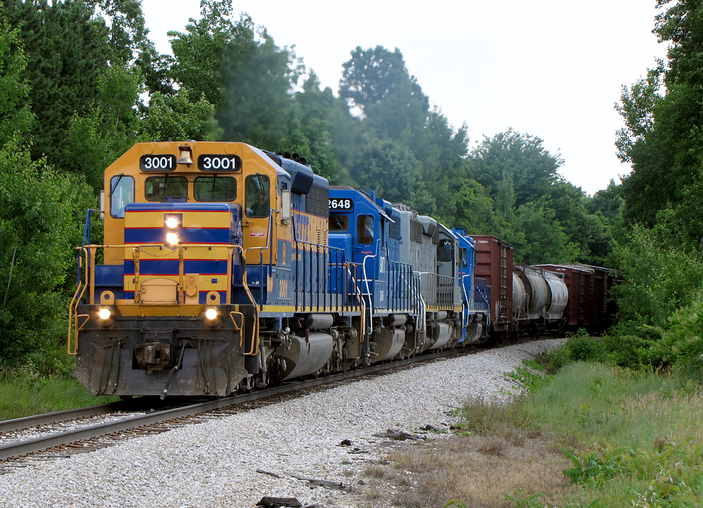 #3001 Marquette Rail. The Mighty Marquette road train flies around the curve at 9 mile road in alpine township in it's journey back to Baldwin, Michigan.